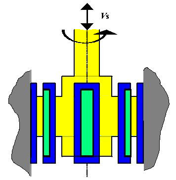 Principles of honing